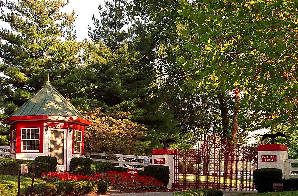 Lexington Kentucky - Calumet Farm